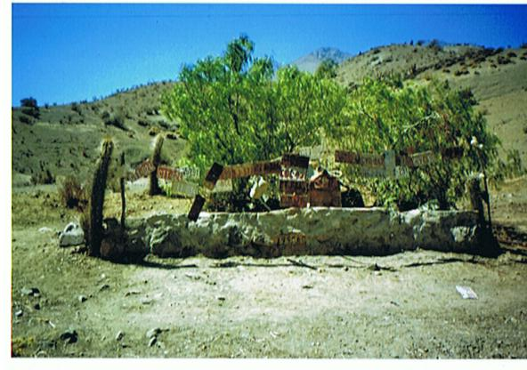 Roadside memorial in the desert of northern Chile, decorated with car licence plates.